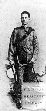 Pío del Pilar, Filipino general during the Philippine Revolution and the Philippine-American War.